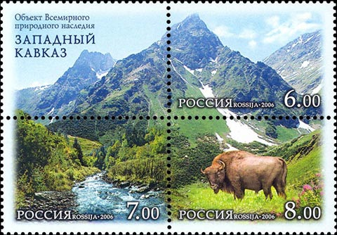 Stamps of Russia World Natural Heritage of Russia (continuation series). The West Caucasus, 2006